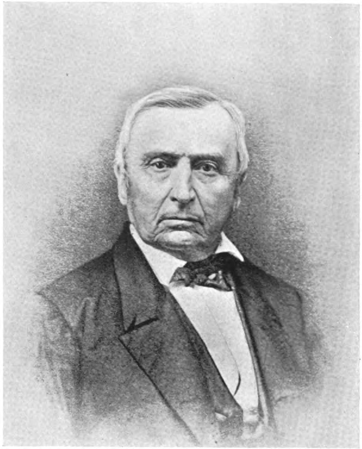 William A. Whittlesey congressman from Marietta, Ohio.